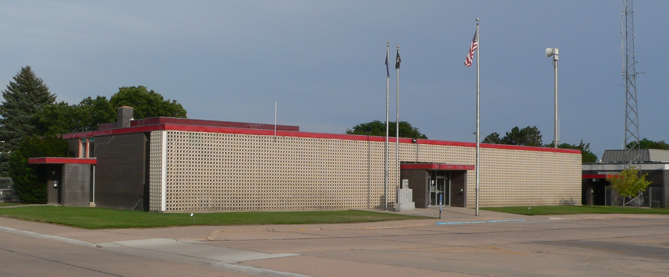 Keith County courthouse in Ogallala, Nebraska; seen from the northwest.